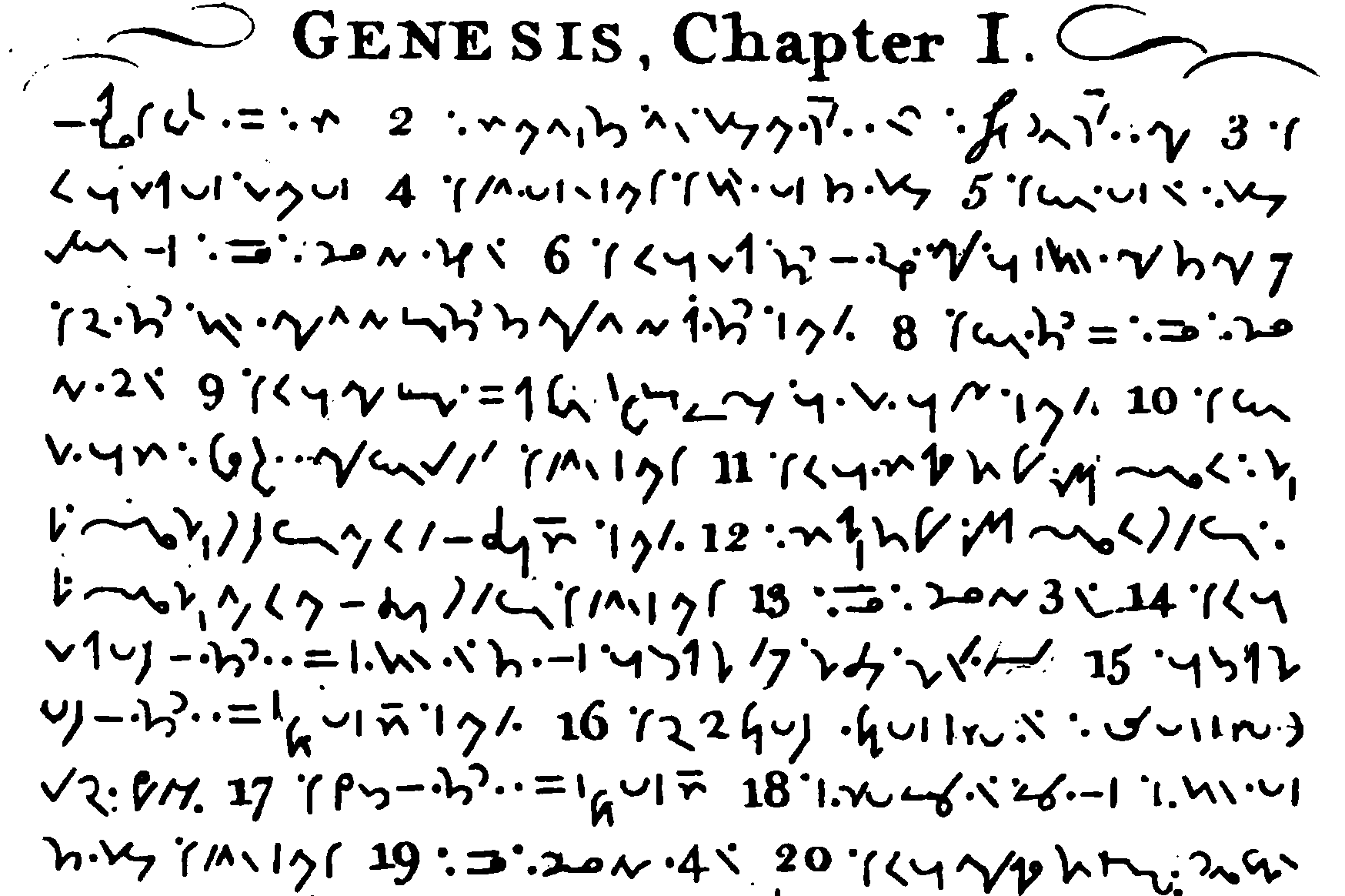 Example of Gurney's shorthand - little